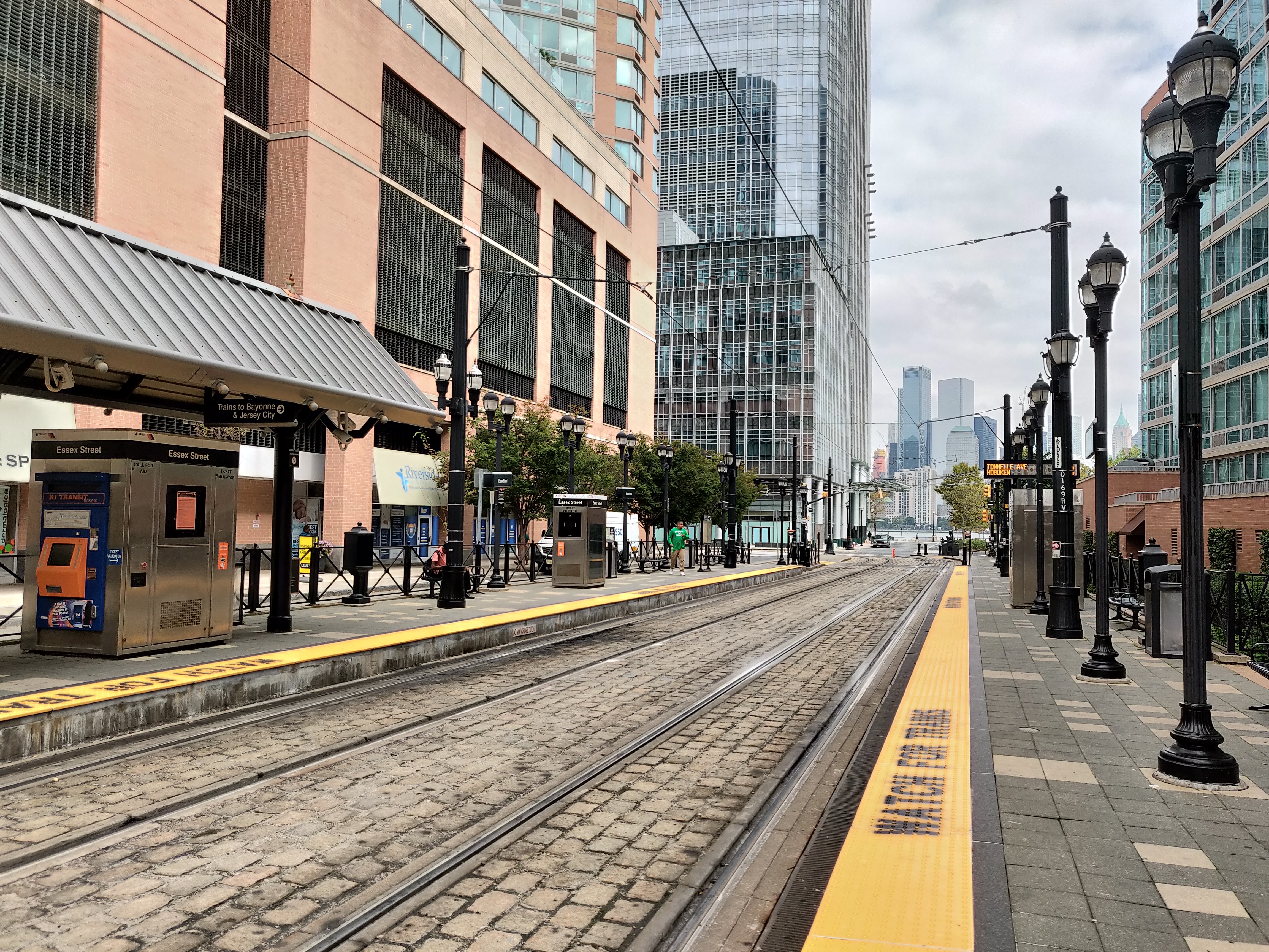 The "Essex Street" Hudson-Bergen Light Rail Station in Jersey City, New Jersey, USA. The photographer is facing east on the northbound platform.